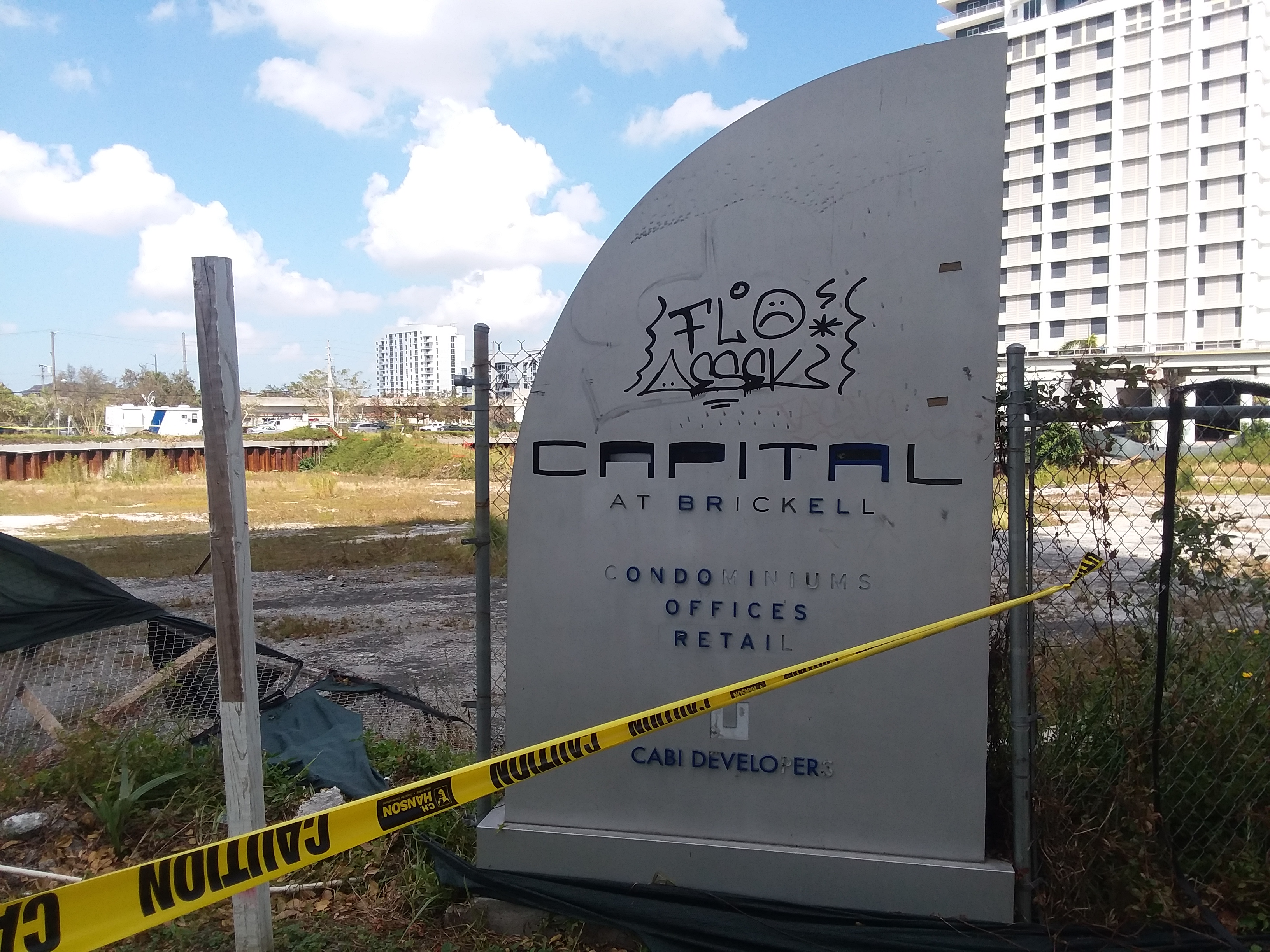 Shuttered development site with fencing damage after Hurricane Irma.